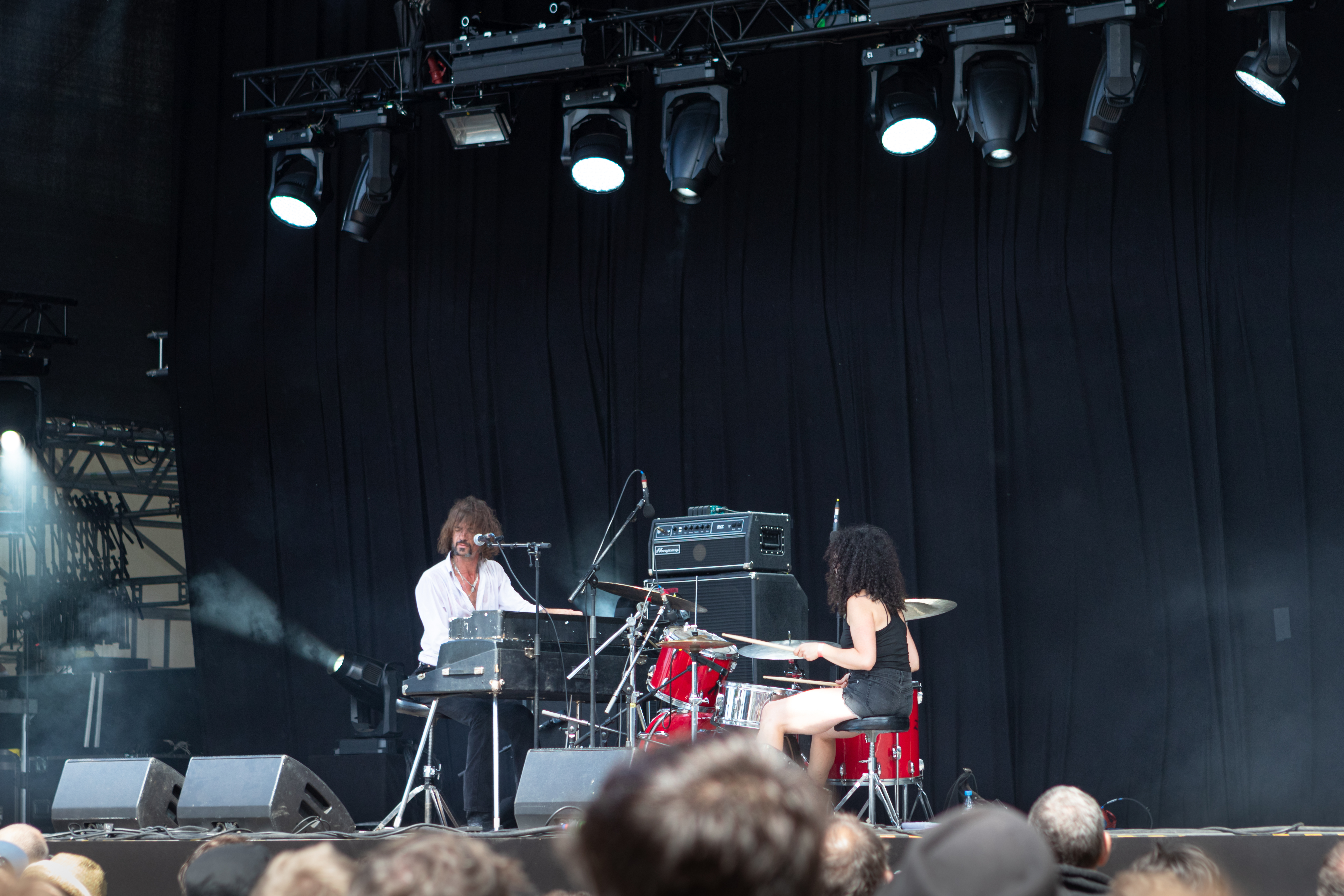 James Leg on the Mainstage at Haldern Pop Festival 2019.